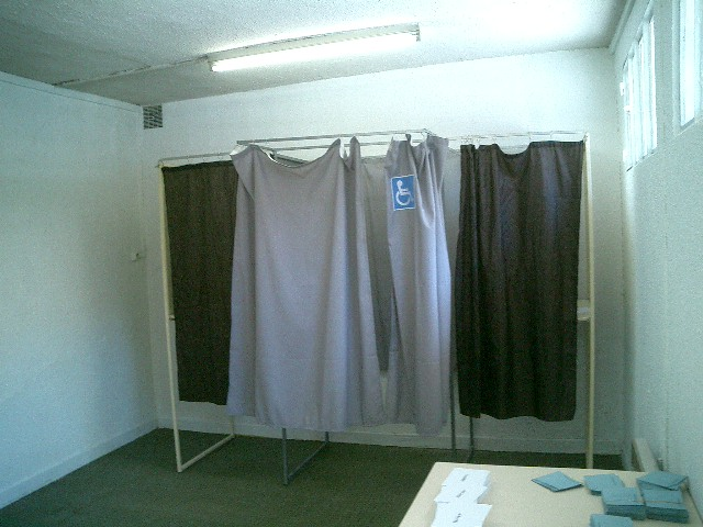 Polling booths for the French presidential election in 2007 in the village of Vaulnaveys-le-Haut in the départment of Isère